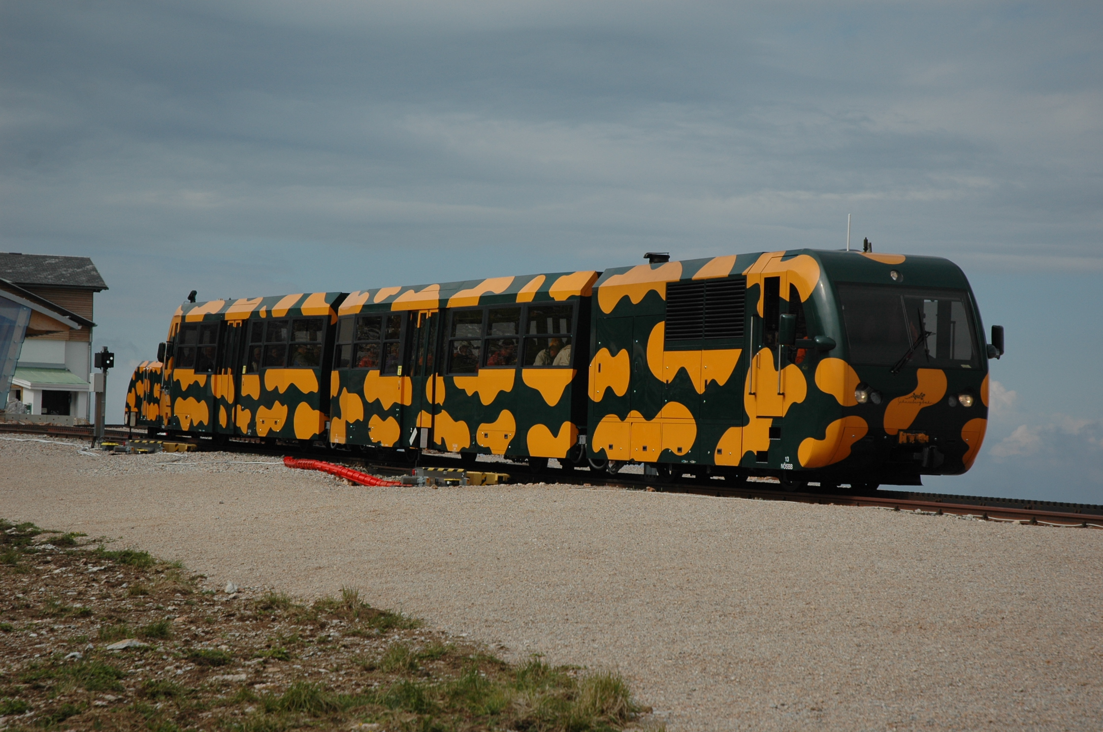 With an altitude of 2.075 m, the trains of the Schneeberg narrow gauge railway, the modern Salamander train leads visitors up onto the highest train station of Austria.